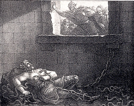 Captioned as "Ragnar Lodbroks död", according to the source page. Etching by Hugo Hamilton, depicting Ælla of Northumbria's murder on Ragnar Lodbrok. Original image size approximately 17 x 22 cm.